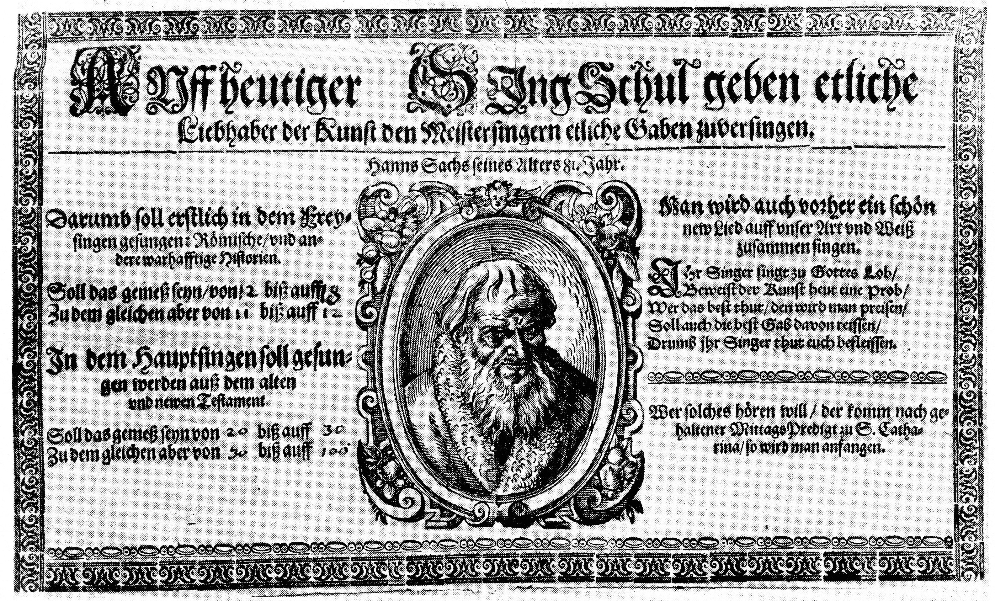 Invitation to a Nuremberg Meistersinger meeting.